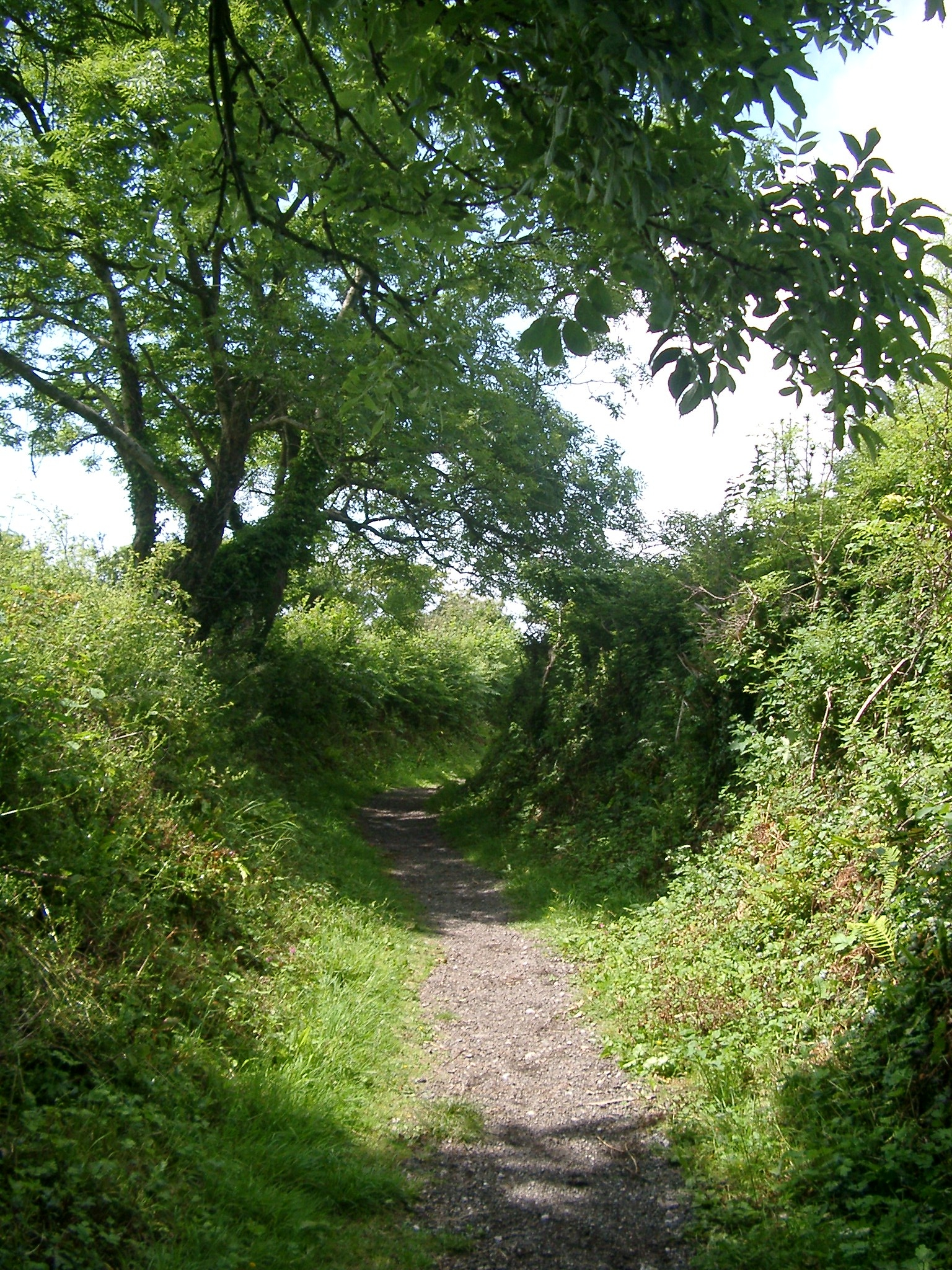 somewhere on "John Musgrave Heritage Path" near Torquay, Devon, England